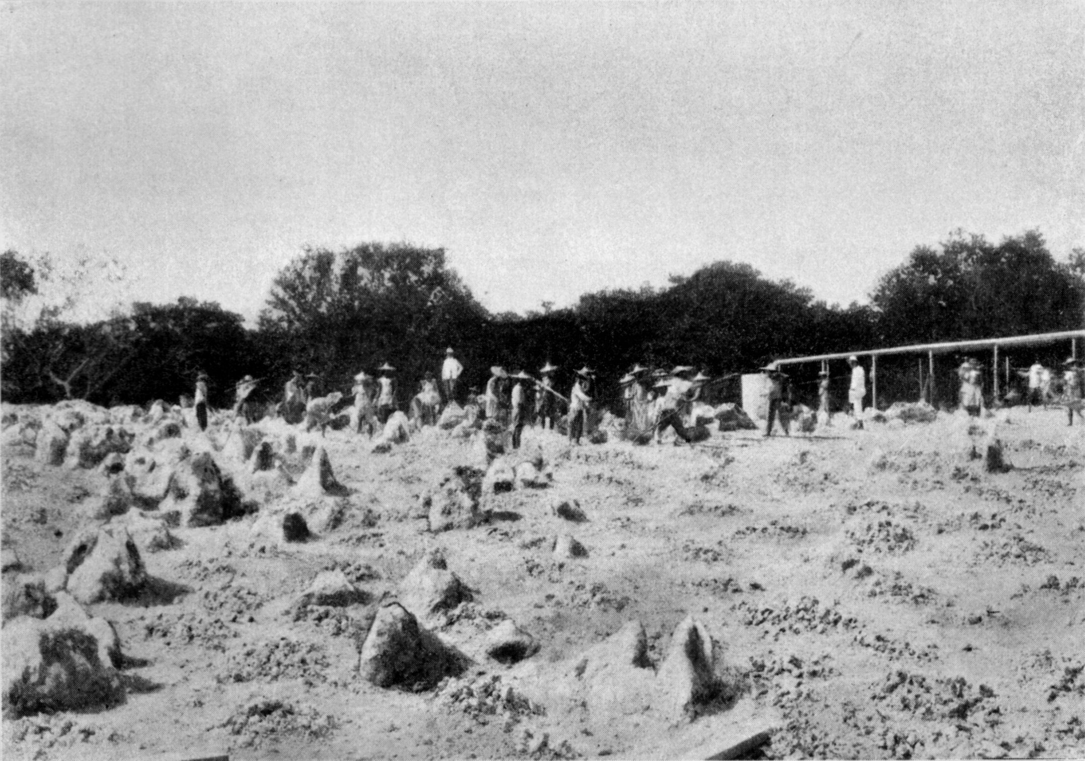 Chinese labourers in the phosphate mine, Nauru